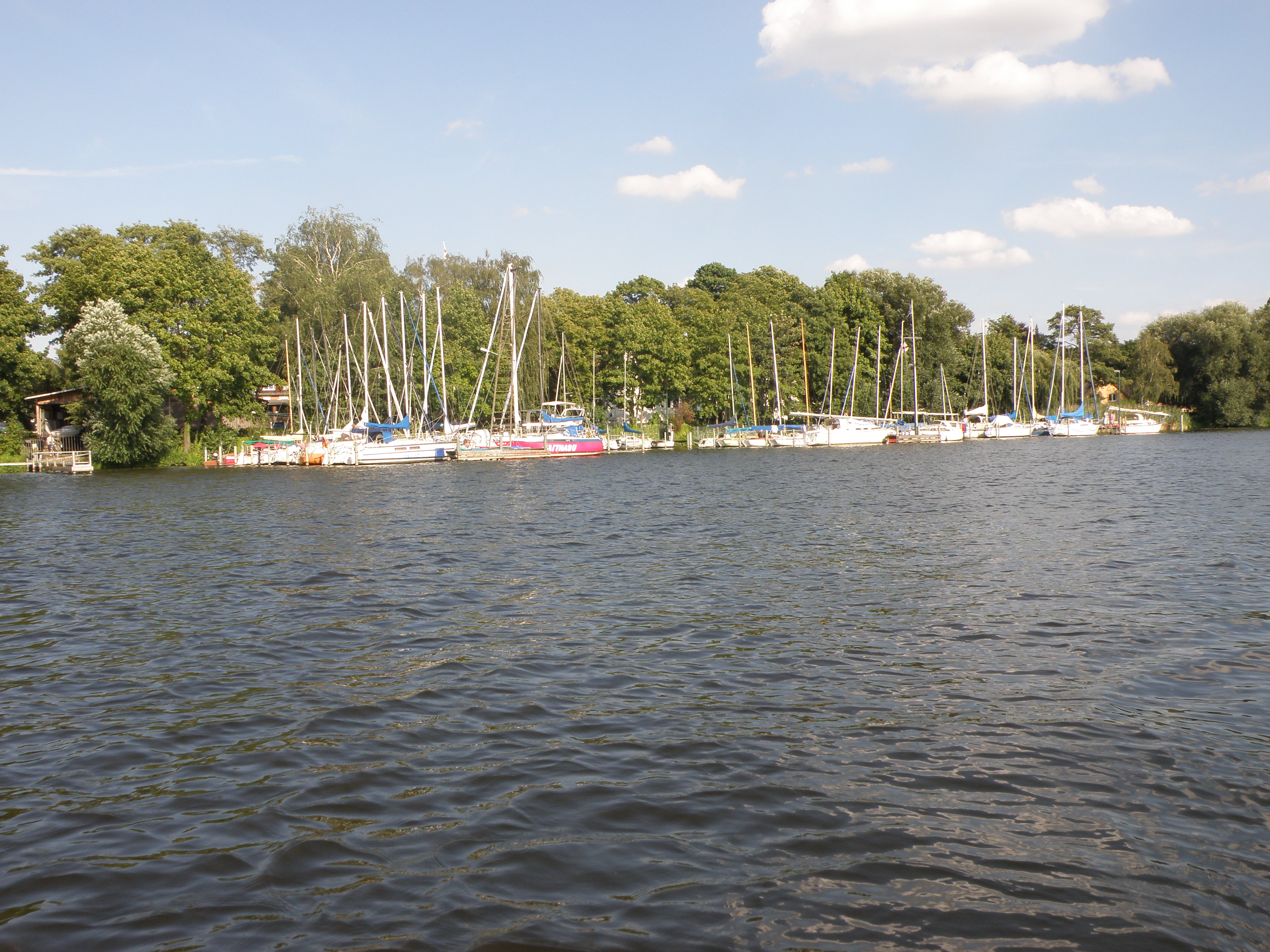 Joersfelder Segel-Club, Berlin, as seen from the Havel River